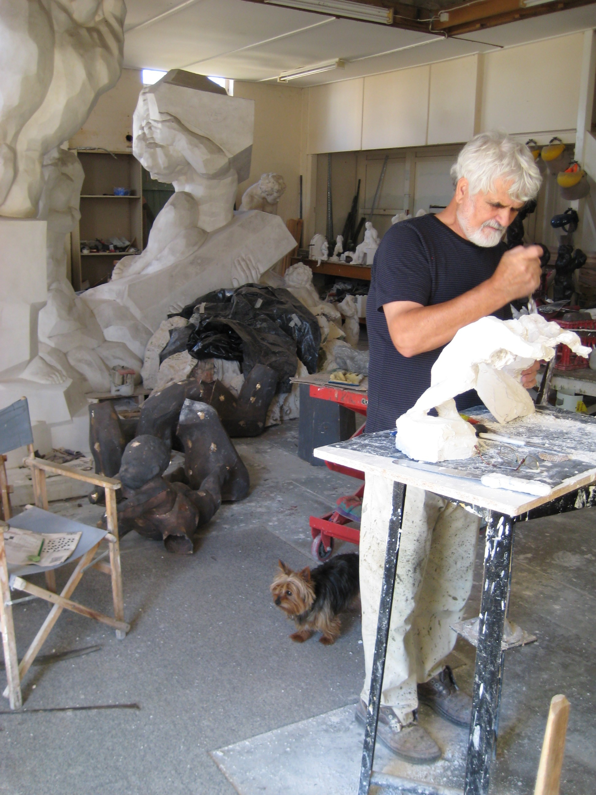 Ante Dabro at work in his workshop studio at Canberra International Airport. Behind are the full sized models for "Genesis" at left and "Resilience"; on the floor are the unassembled parts in cast brass for "Mother and Child". At Dabro's feet is his Australian Silky Terrier, Chiko.